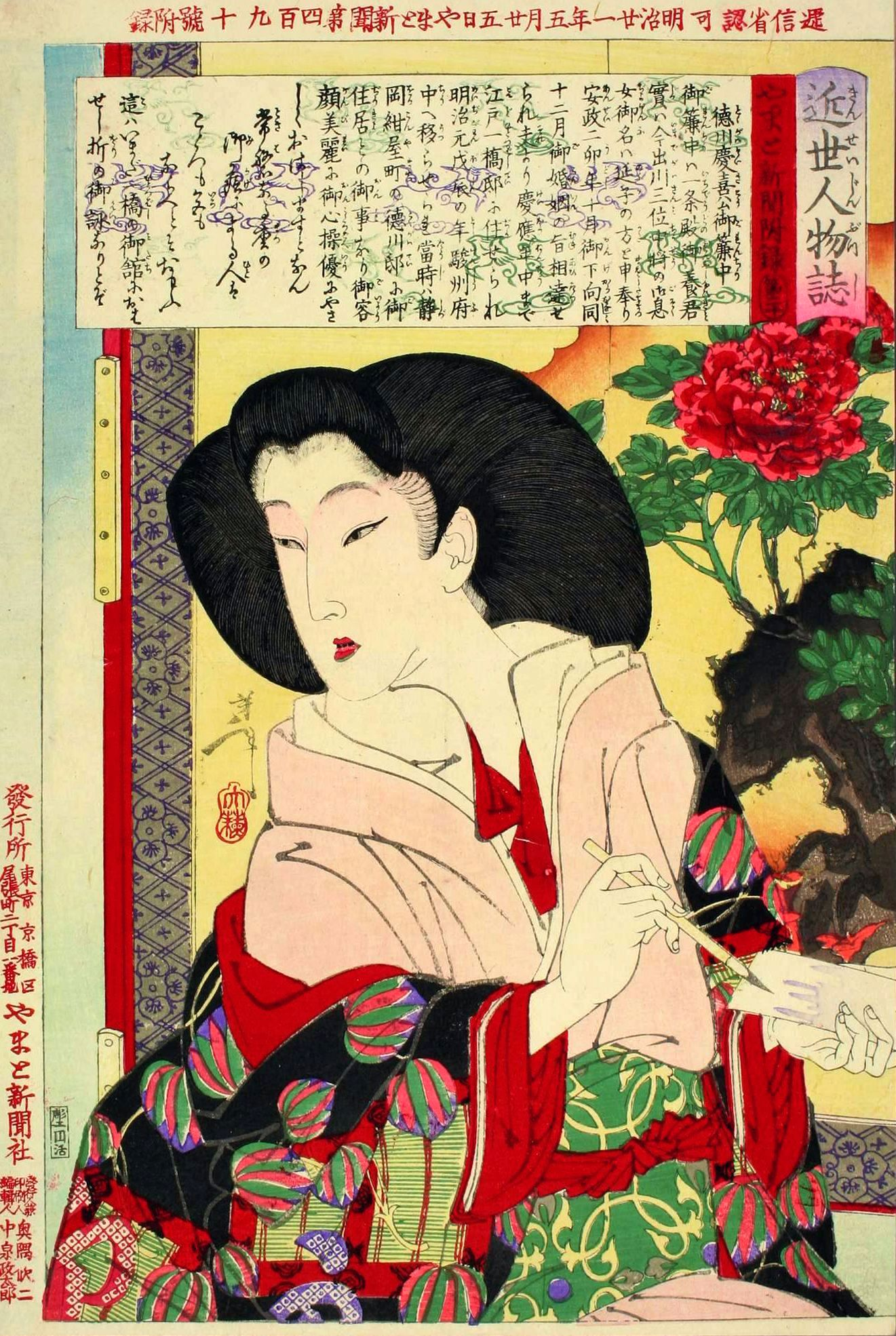 Mikako, Tokugawa Yoshinobu's seishitsu.